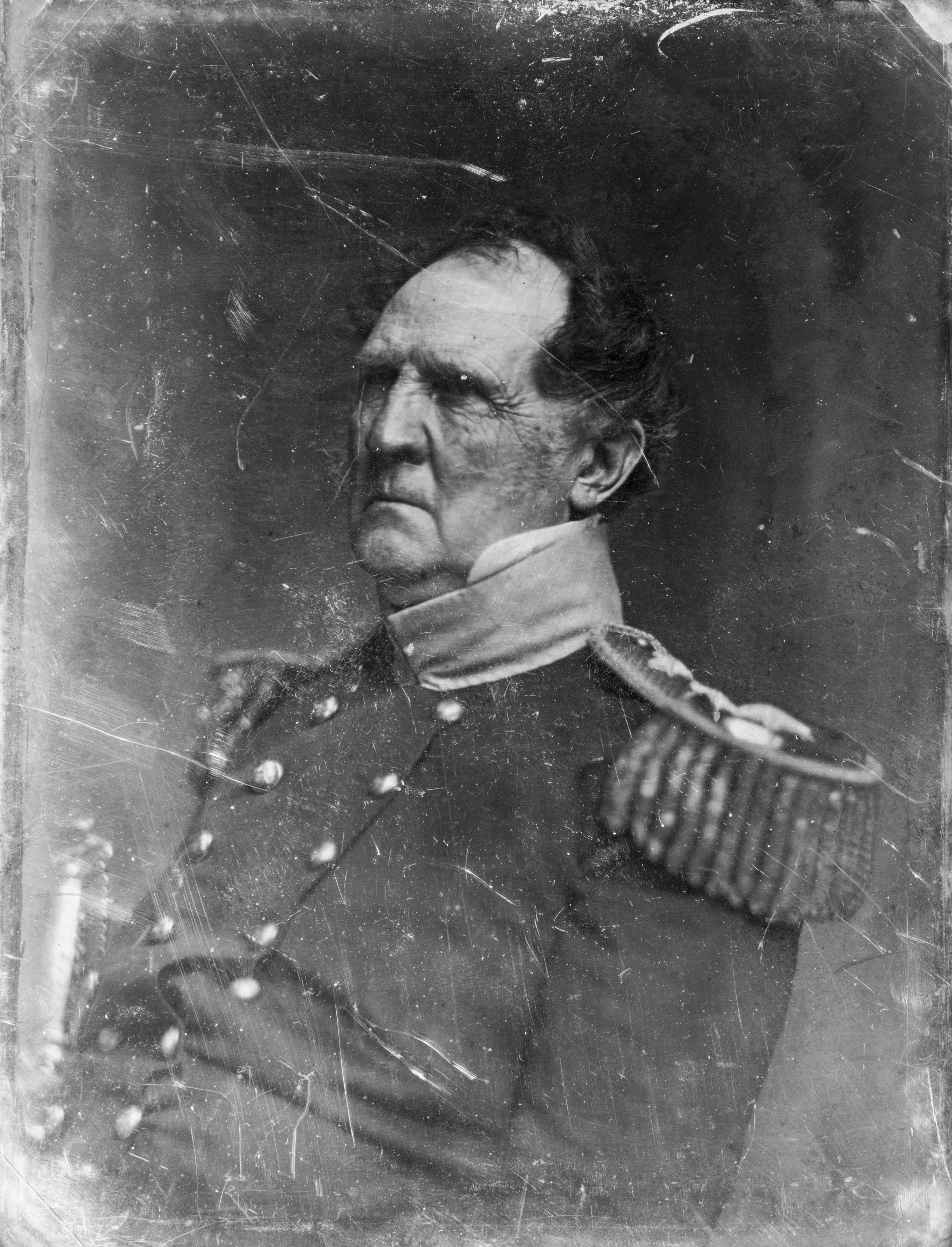 General Winfield Scott daguerreotype created by Matthew Brady's studio circa 1849.